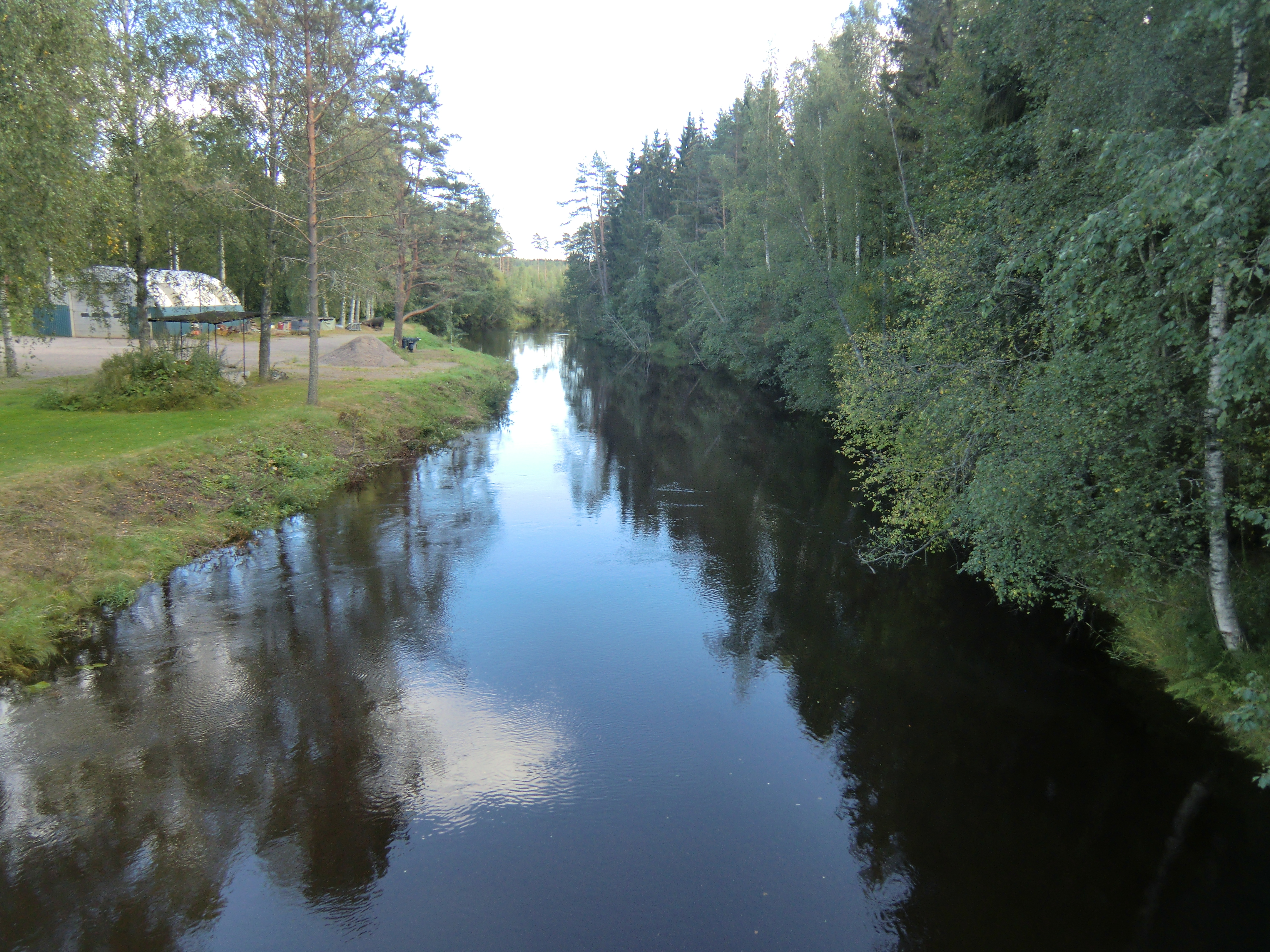 River Vrångsälven.